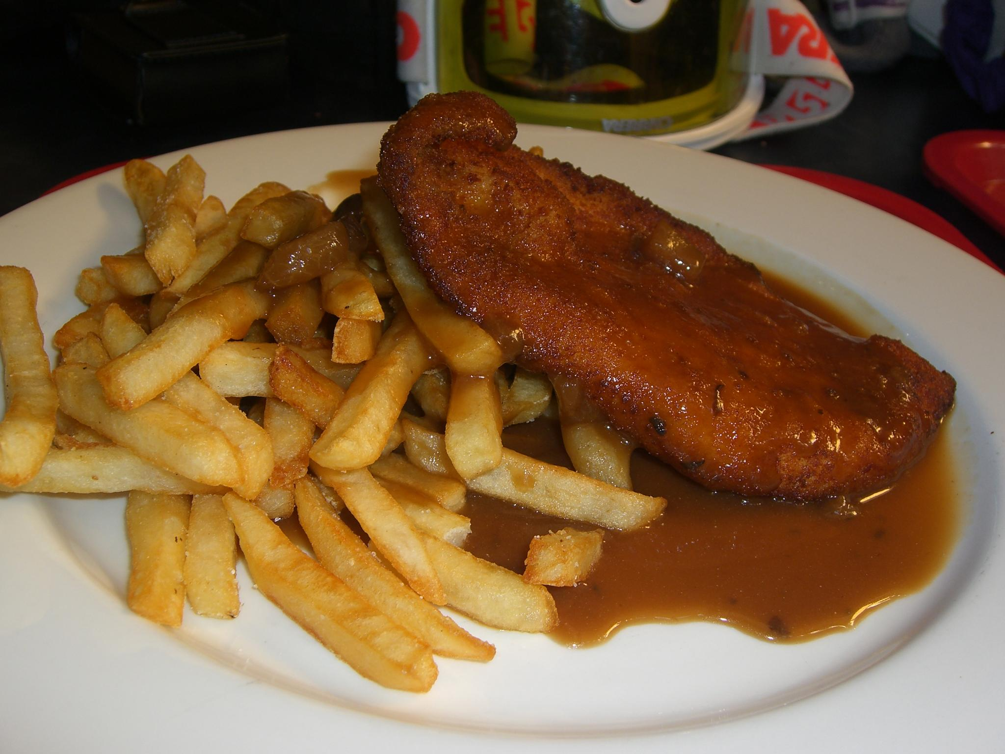 Fried chicken schnitzel served with chips and jaeger gravy at AlpenStubel, River Inn, Thredbo Ski Resort, Kosciuszko National Park, Australia.